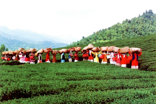 A Lahijan tea farm during harvest time at Gilan Province northern Iran.